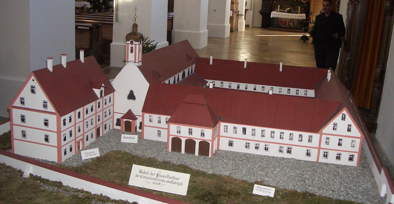 Gutenzell, Germany: model of the former convent